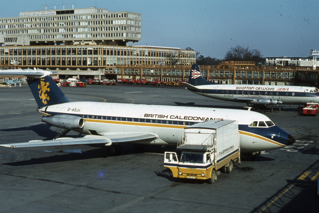 Gatwick Airport in 1972 A view of what is now called the South Terminal, from the southern pier. A British Caledonian BAC (British Aircraft Corporation) 111 is in the foreground. A BEA (British European Airways) / Scottish Airways Vickers Viscount is in the middle distance.